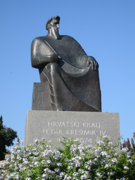 Statue of Petar Krešimir IV